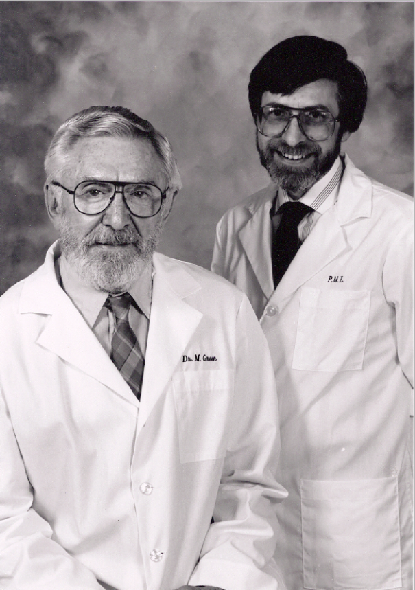 s